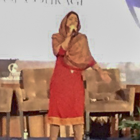 Afghan rapper Ms. Sonita Alizadeh performs at the International Women of Courage forum at the U.S. Department of State in Washington, D.C., March 29, 2016. Projected on the screen above are her lyrics: "I know it is your city's tradition for girls to remain silent. Tell me, what can I do to prove my personhood?" State Department photo by Lawrence Schwartz / public domain. More photos here: More about the winners here